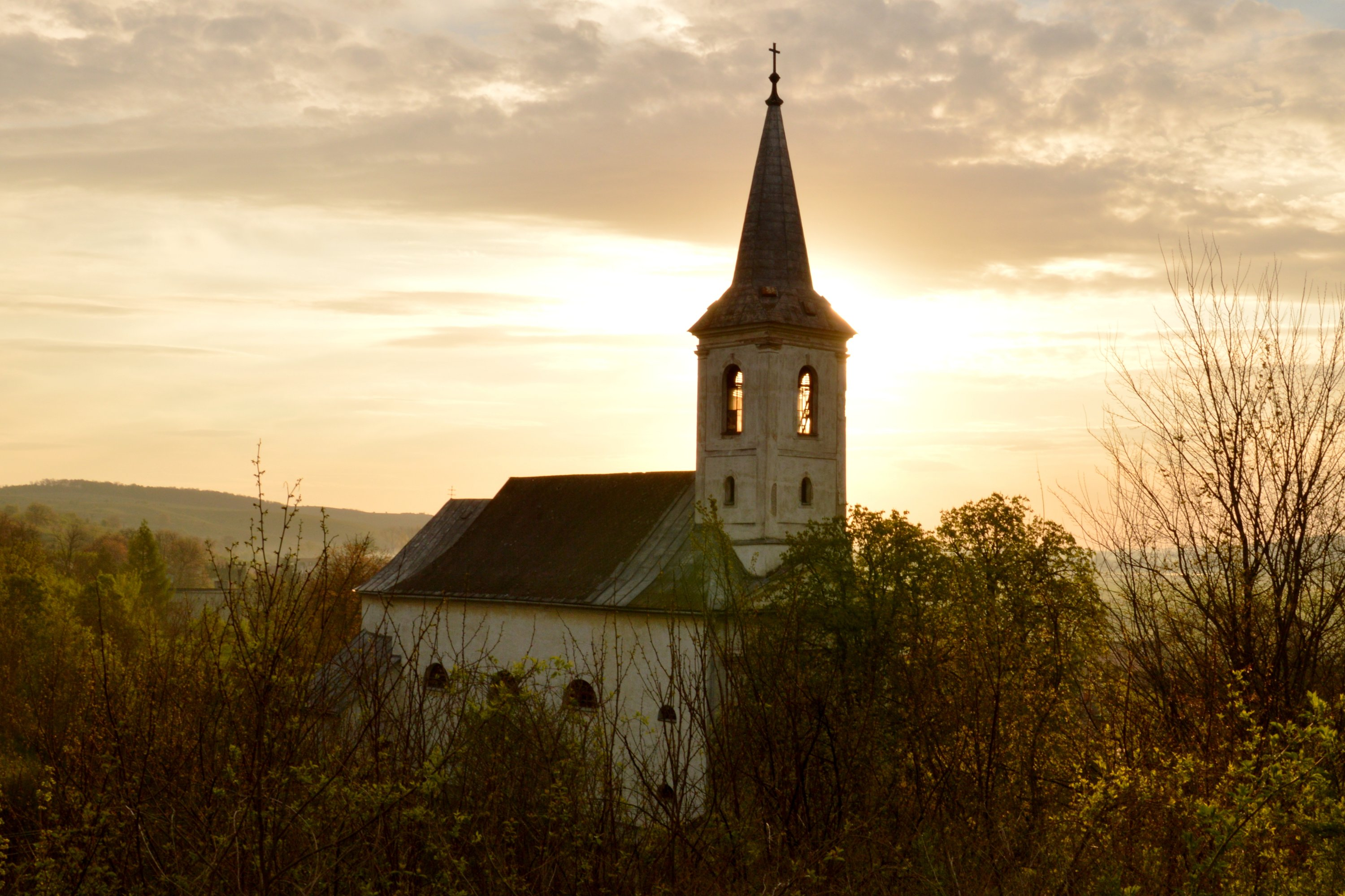 Roman Catholic Church of St. Catherine of Alexandria in Hodejov